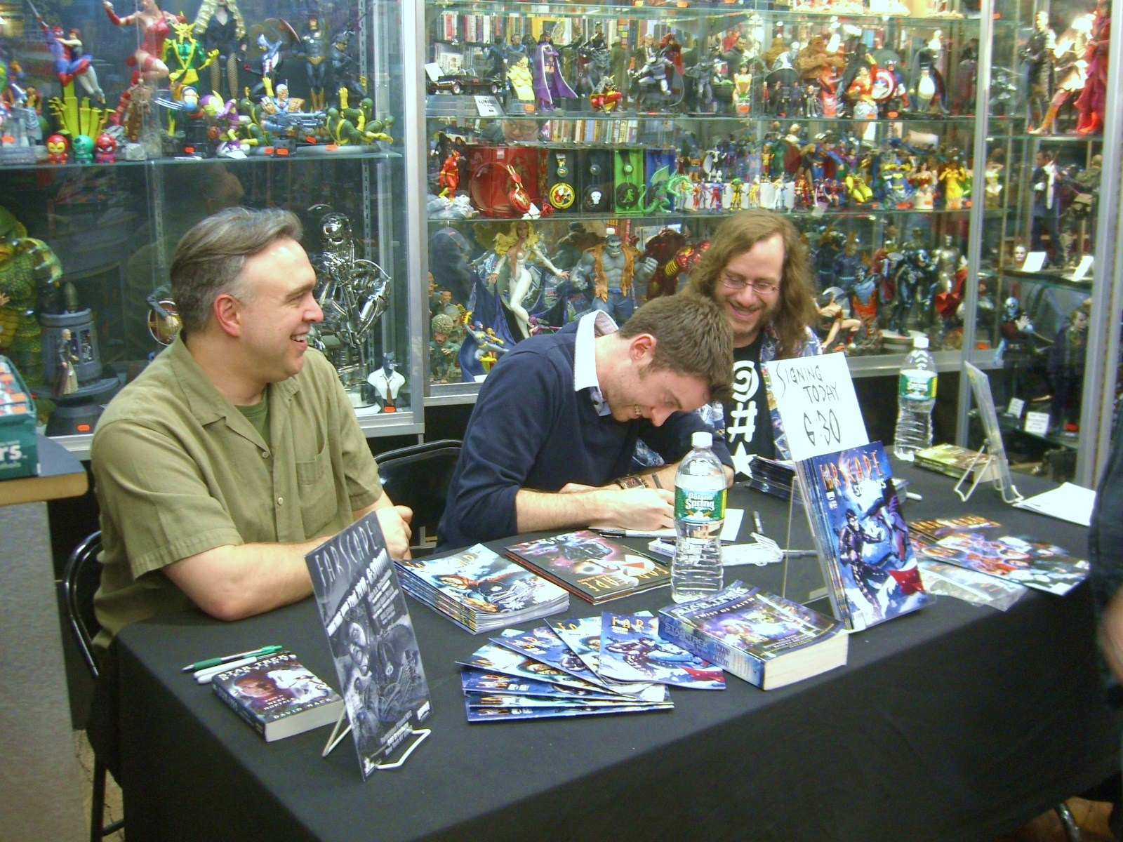 (From left to right:) Comic book creators David Alan Mack, Will Sliney and Keith DeCandido at a signing at Forbidden Planet in Manhattan.